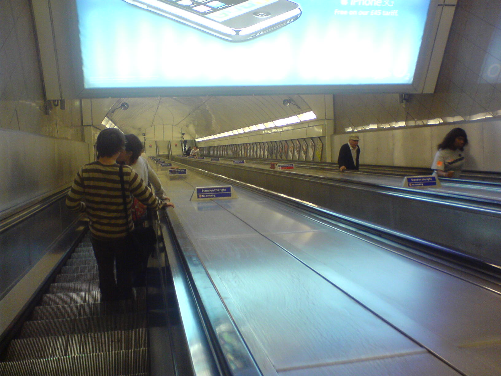 Photo of the longest escalators in Western Europe, with a vertical rise of 27.4 m (90 ft) and a length of 60 m (197 ft) installed at Angel Underground Station